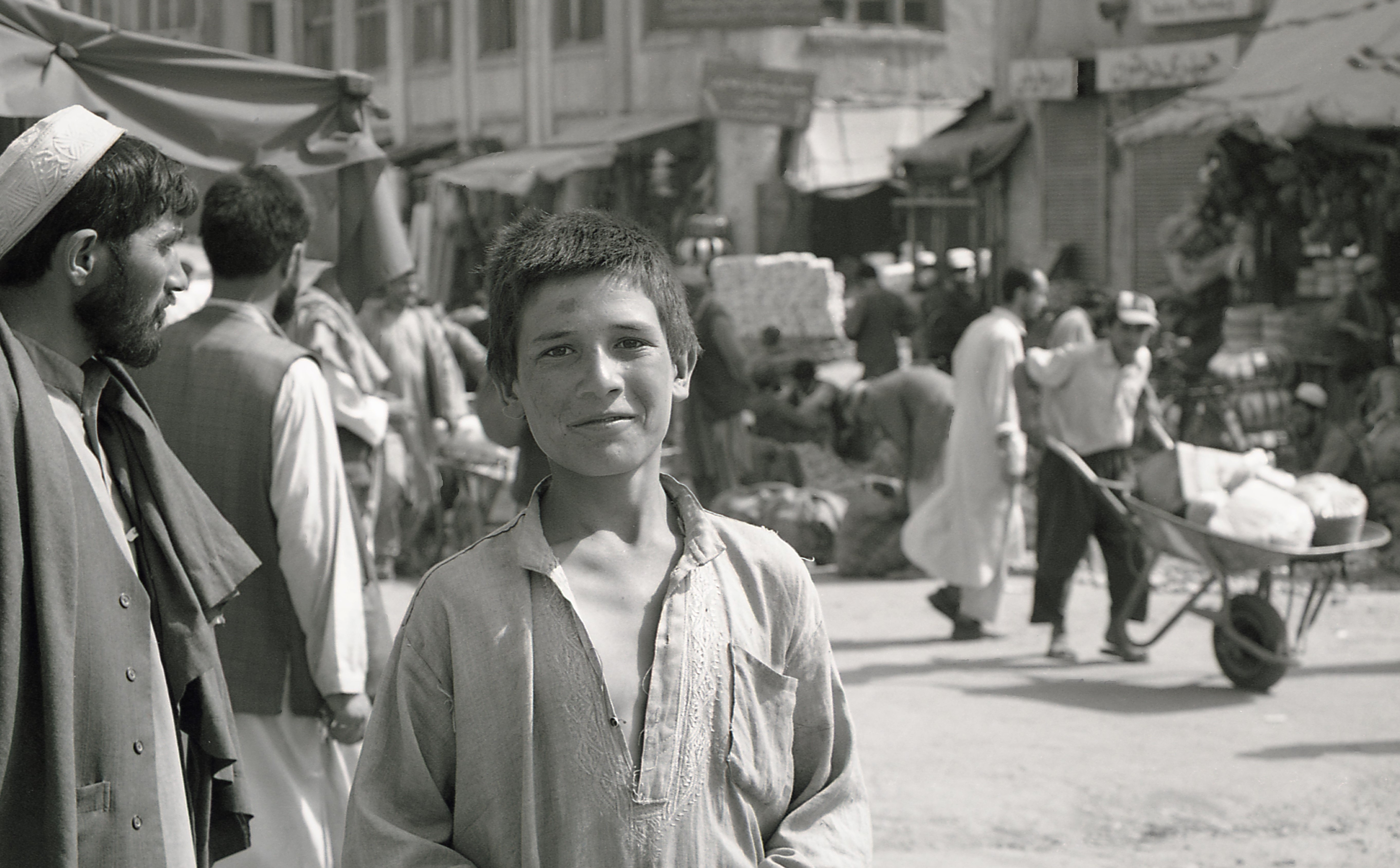 Afghan teenager smiles for the camera in downtown Kabul, Afghanistan (June 2003). Photo by Peter Rimar.